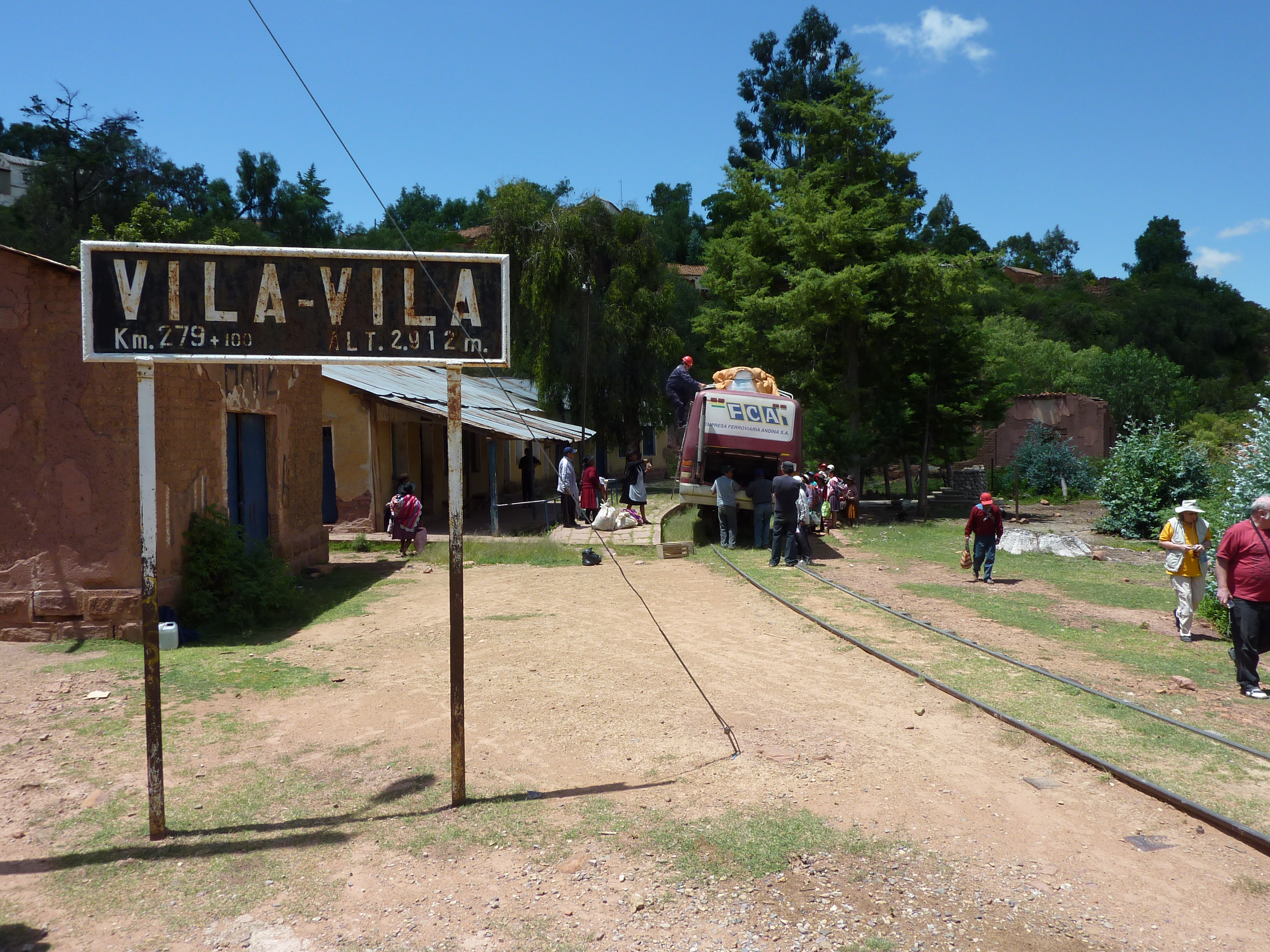 Railway station VilaVila in Bolivia